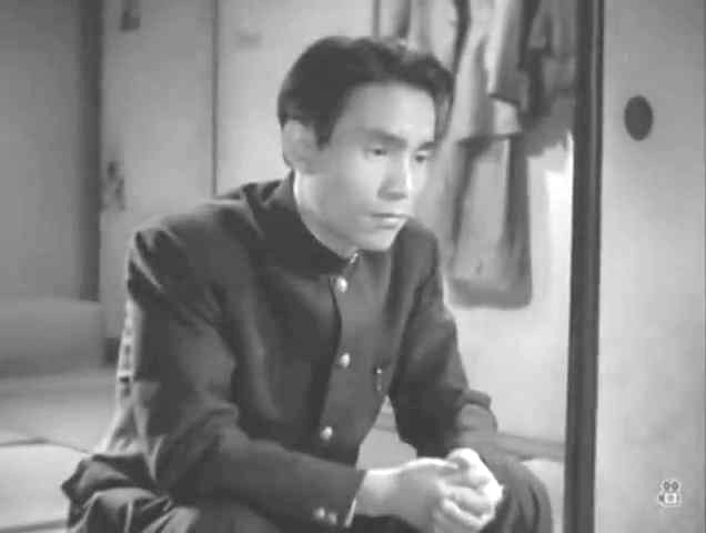 Jukichi Uno in Japanese movie Ikari no Machi (The Town of Anger).